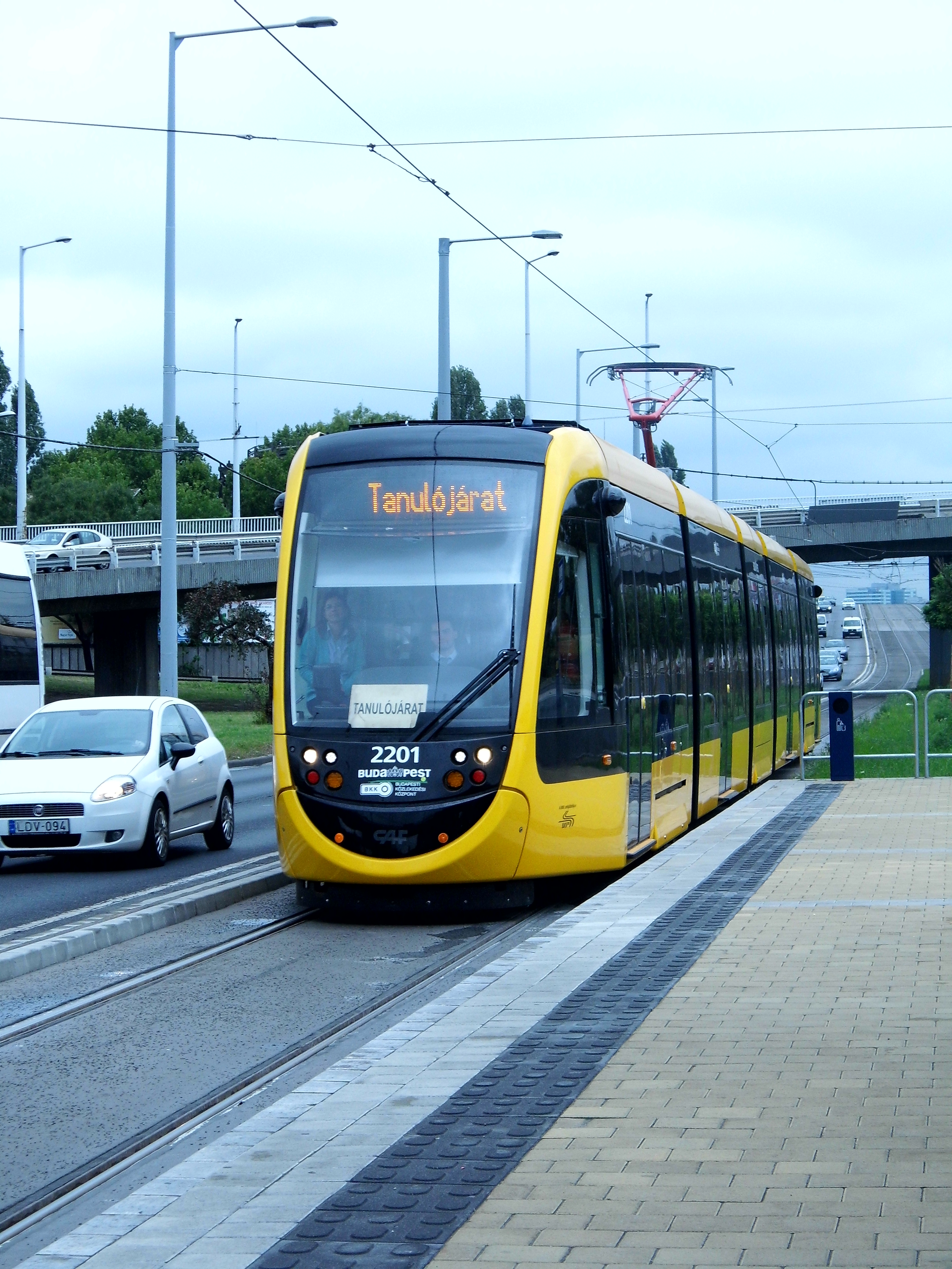 CAF Urbos 3 type tramway's getting acquainted with Line 1 on Hungária Blvd.